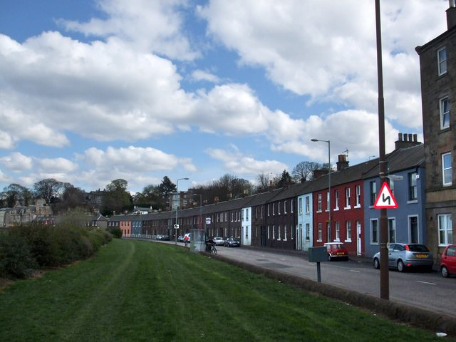 Wardie Cottages, Lower Granton Road, Edinburgh